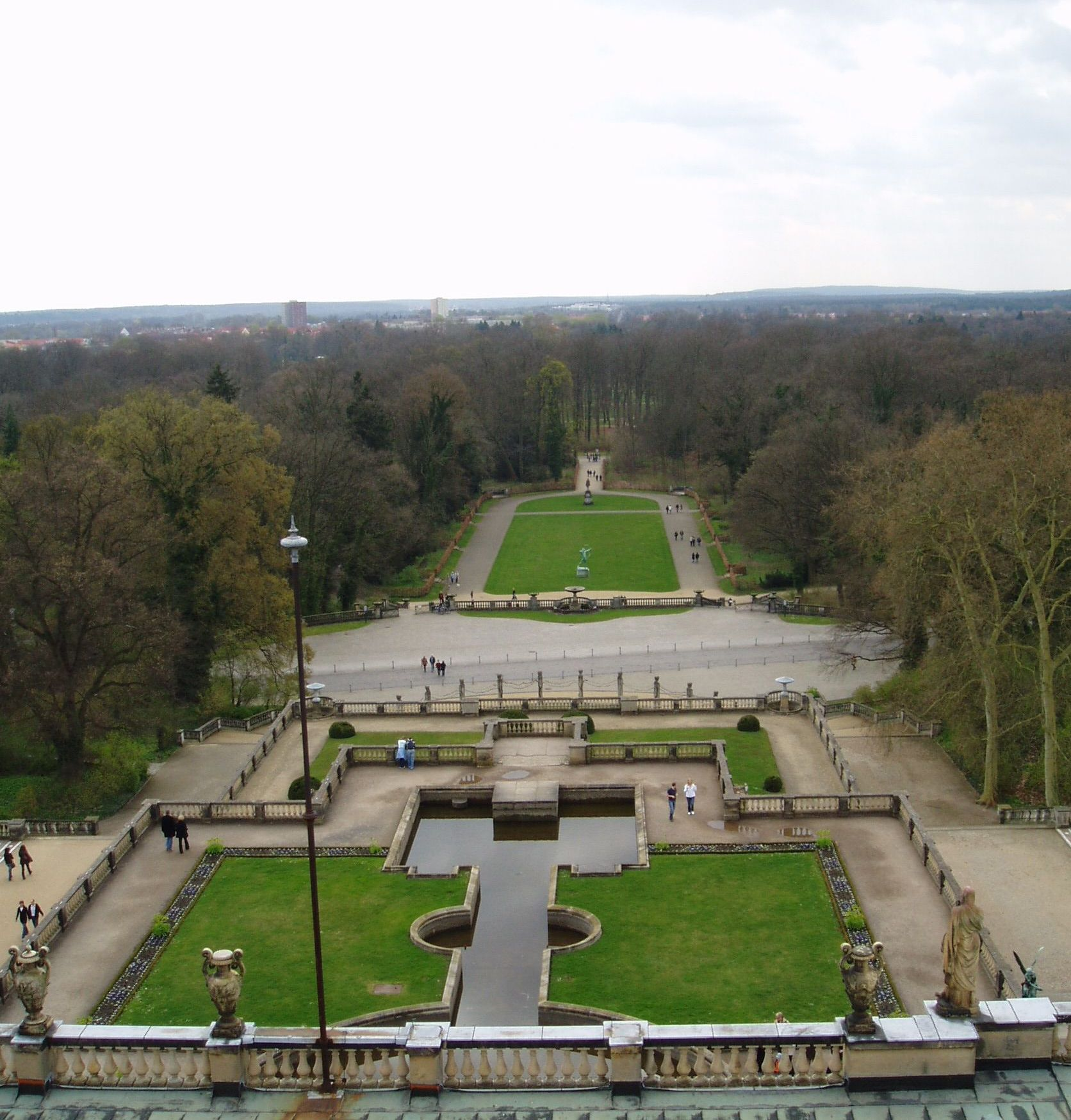 Terrace at Orangery palace, Potsdam, Germany